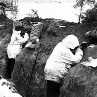 Finnish infantry defending trench on the Karelian Isthmus